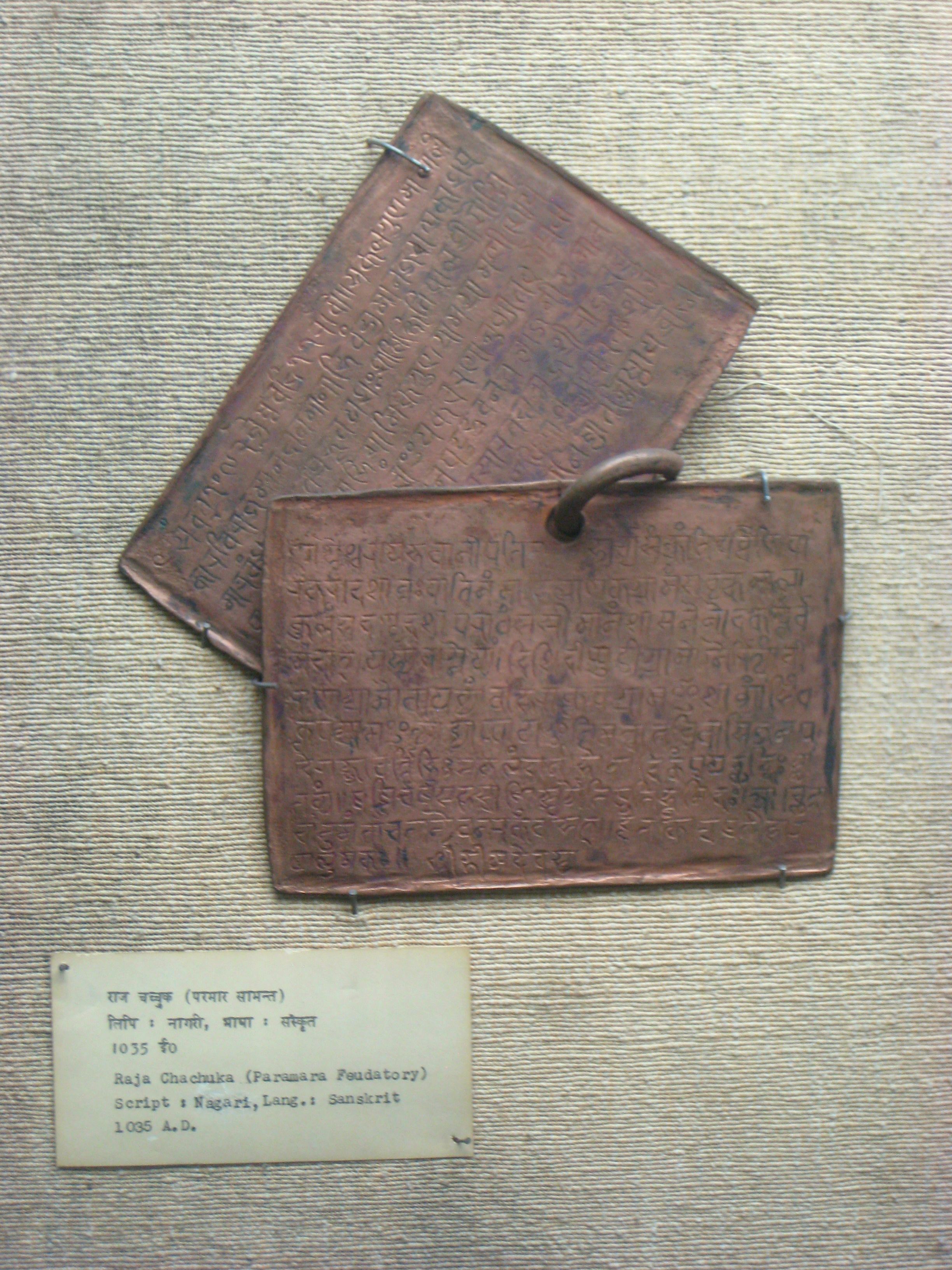 Raja Chachuka (Paramara Feudatory), Sanskrit in Nagari script, 1035 AD. Copper plate, exhibited in the National Museum, New Delhi, India.